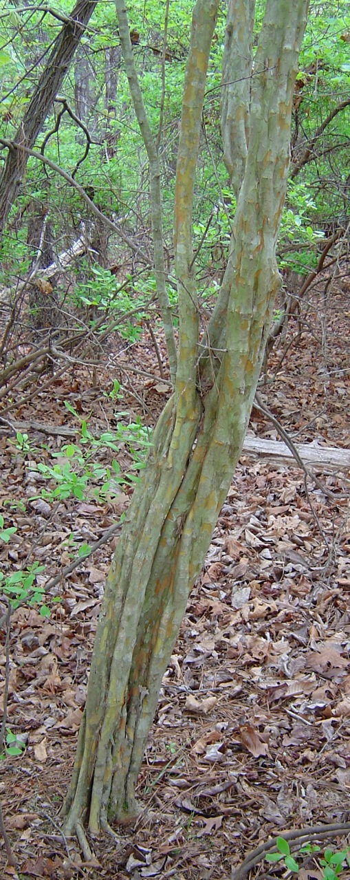 Taken Northwest Georgia, U.S.A.